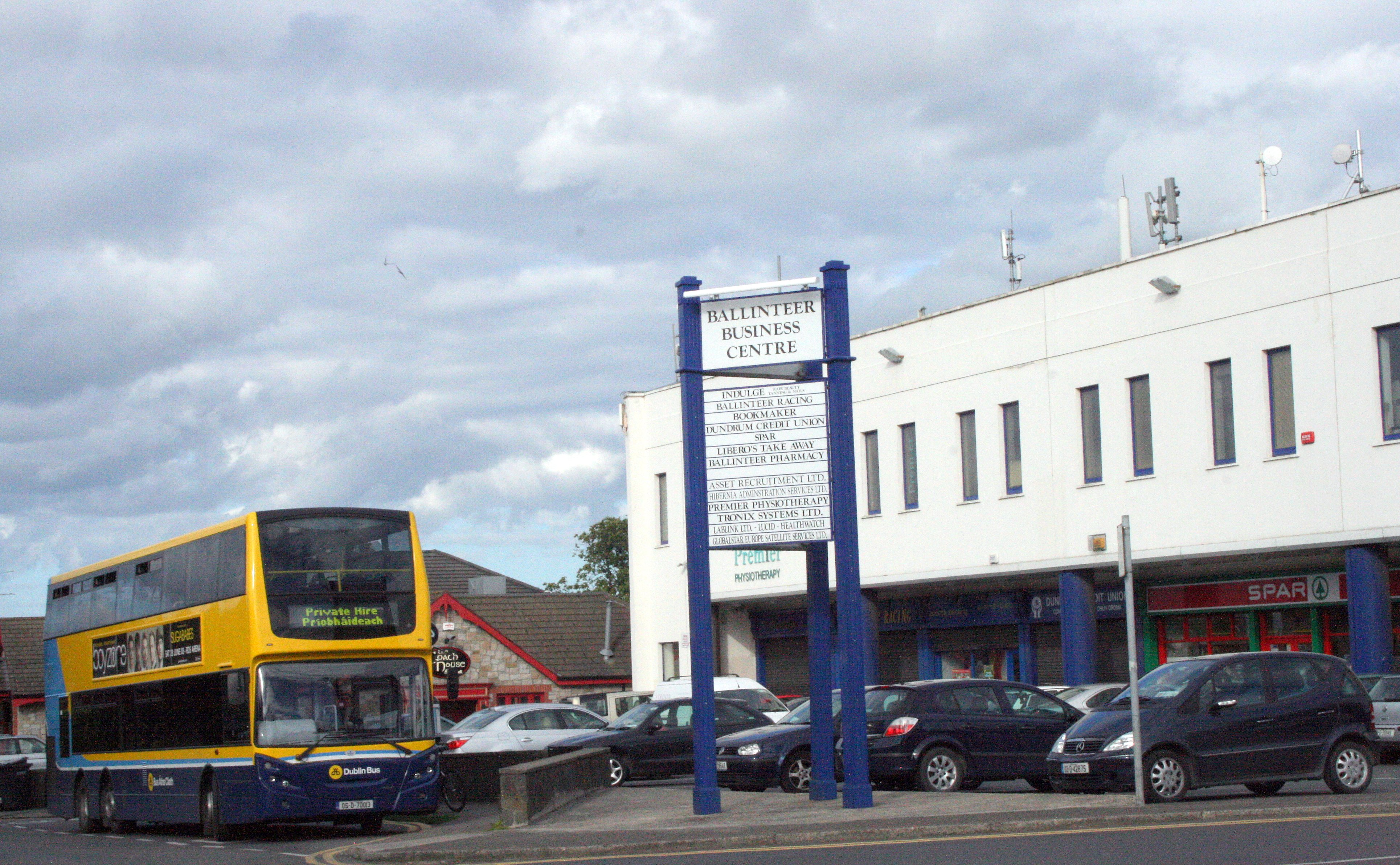 Balinteer, Dublin, Ireland (Balinteer Avenue, Coach House pub area).